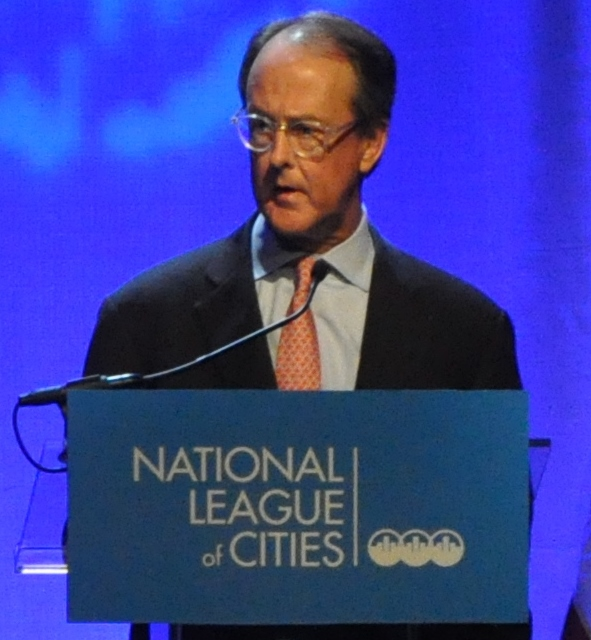 Erskine Bowles speaks at the 2011 National League of Cities convention.